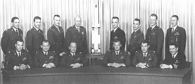 14 of 17 MOL astronauts. Downloaded from the USAF Space and Missile Systems Center website